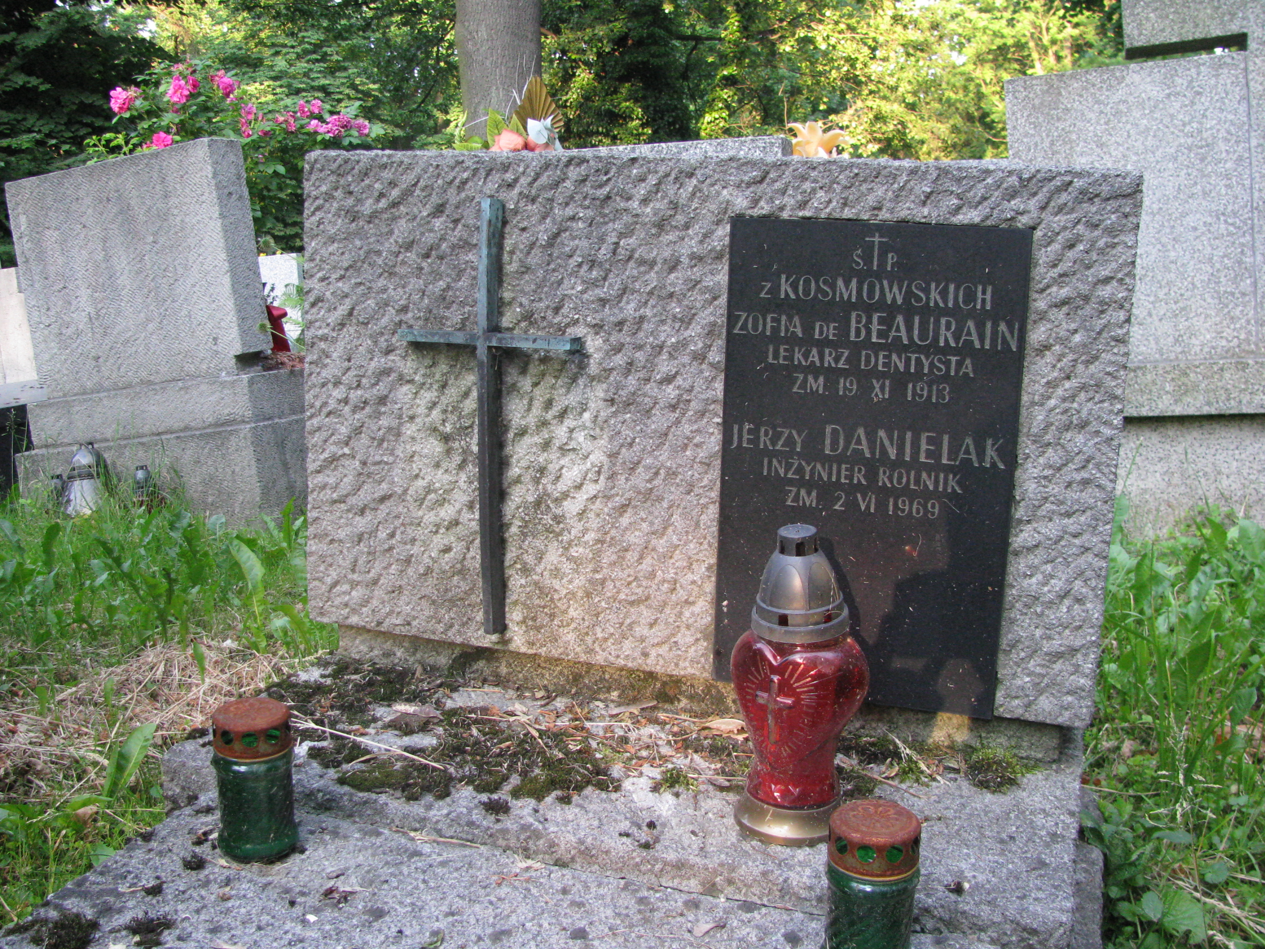 Grave of Dr Zofia Kosmowska-Beaurain